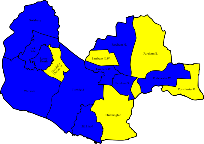 A map of the results of the 2006 Fareham Council election. Colour legend by wards won: Conservative party Liberal Democrats